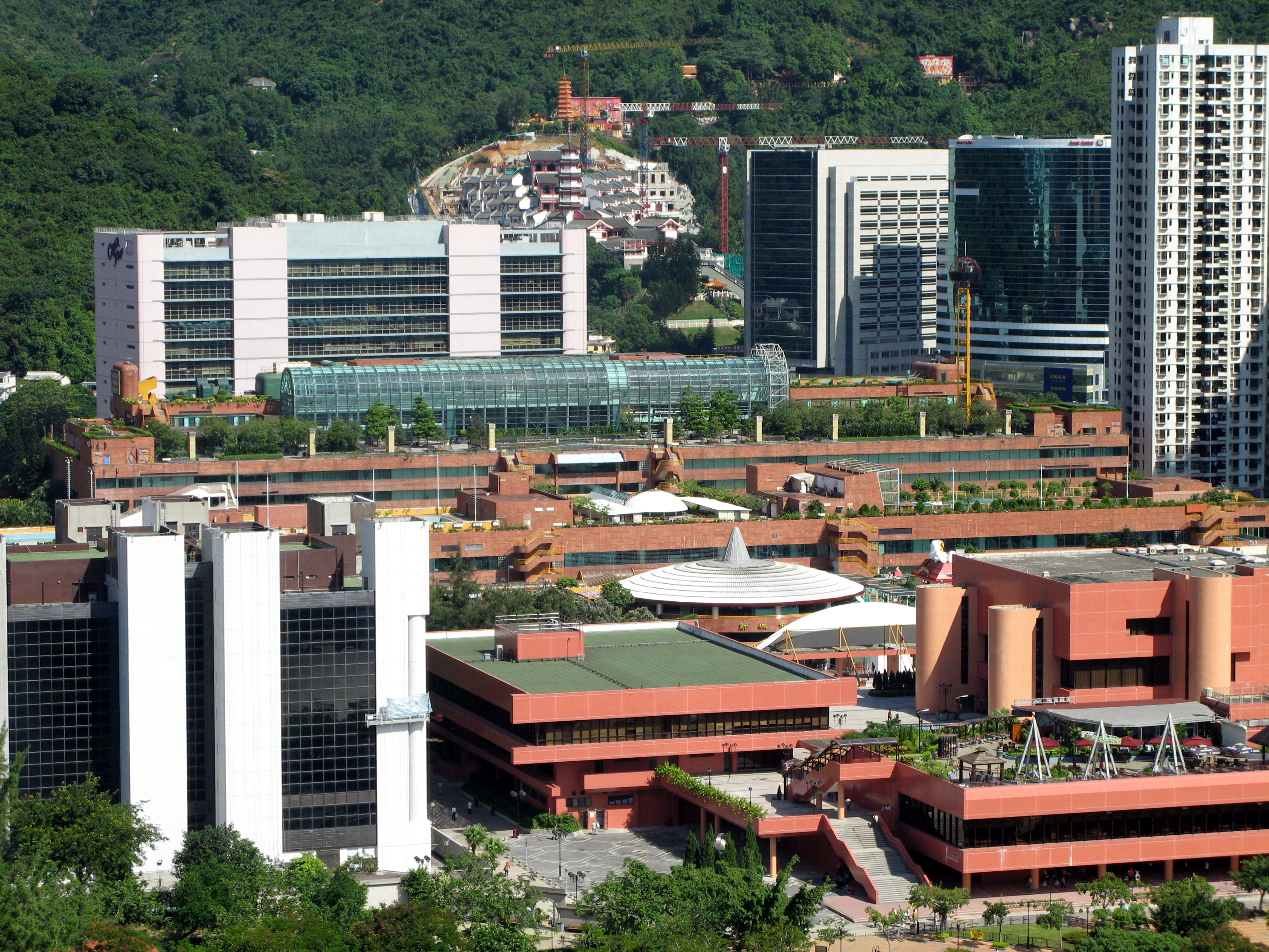 HK Shatin New Town Plaza. Po Fook Hill cemetery is visible in the background.